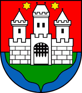 Coat of arms of Komárno, Slovakia